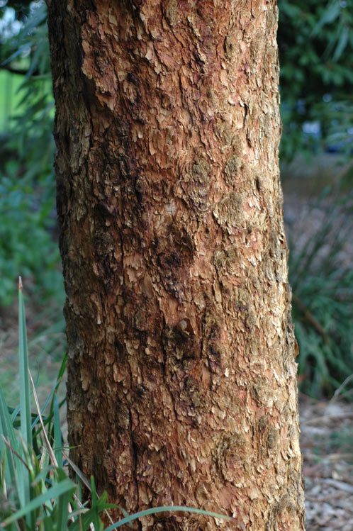 Bark of Corymbia leichhardtii in the Mount Annan Botanic Gardens, New South Wales